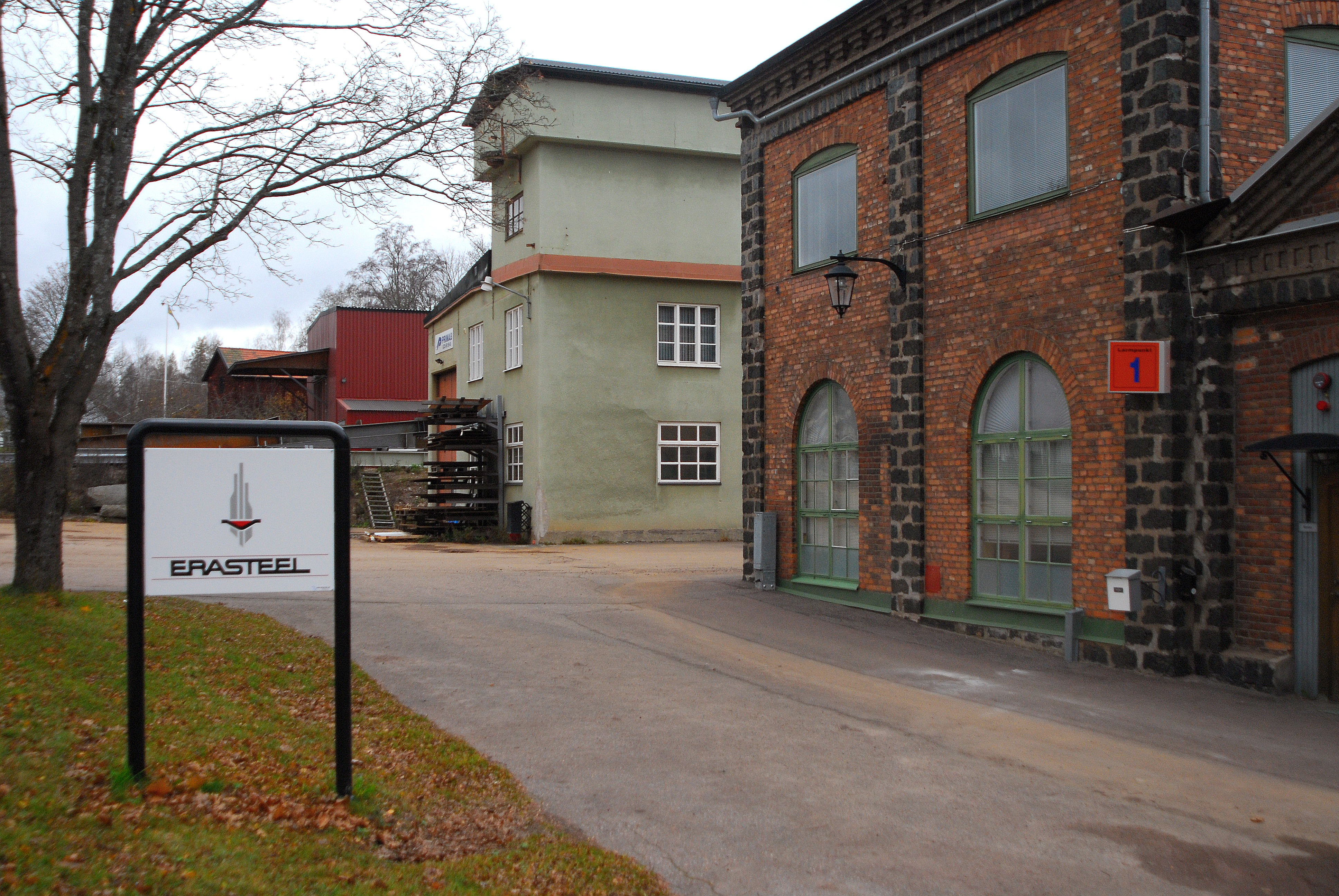 Wikmanshyttan steelworks. Entrence to Erasteel Kloster AB. The company is producing high speed steel strips in the cold rolling mill at Wikmanshyttan. The former mechanical workshop can be seen in the background. Hedemora municipality, Sweden